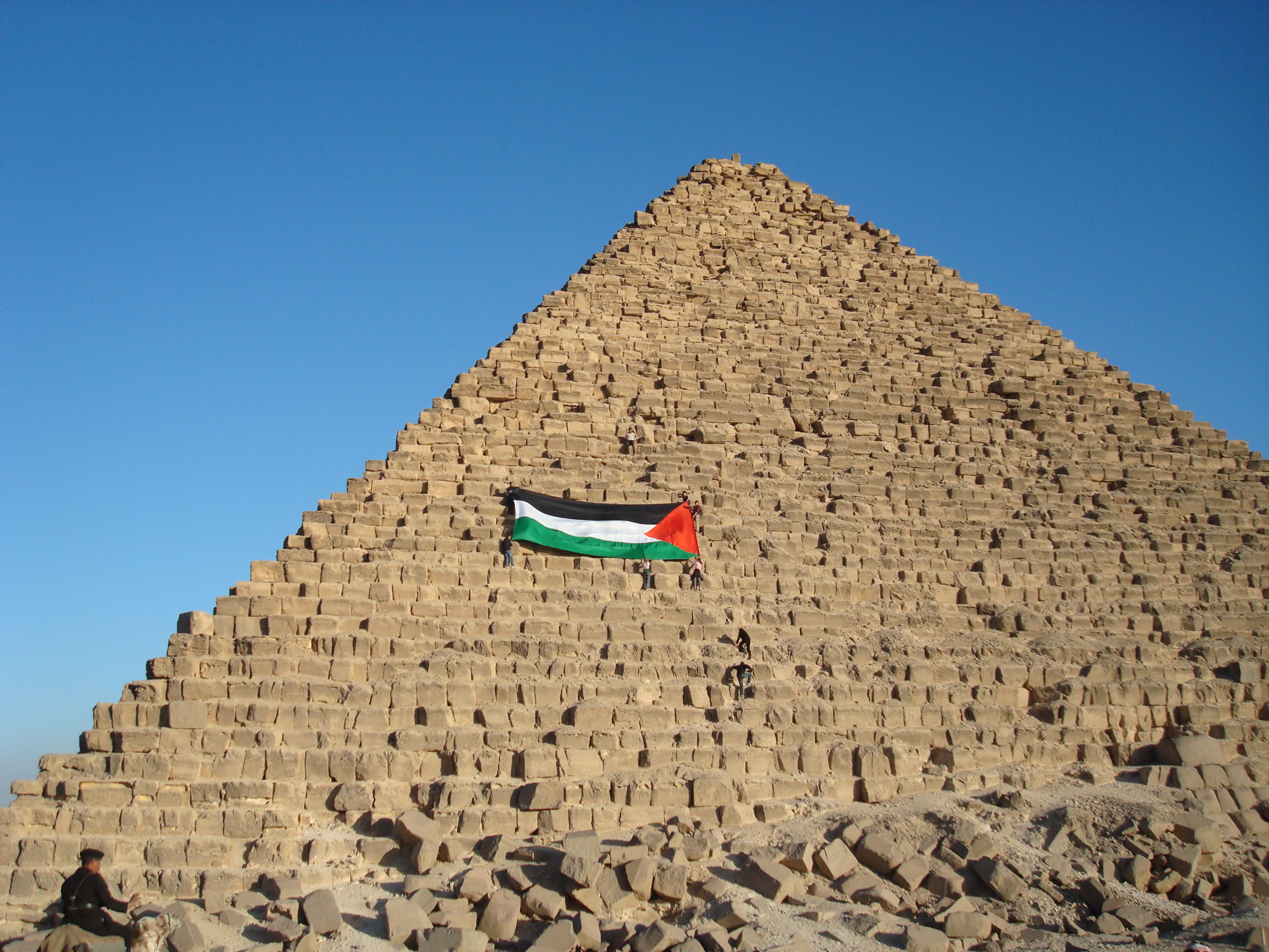 During the Gaza freedom march Max Geller and fellow delegation members flew the Palestinian flag from the pyramid of Giza.